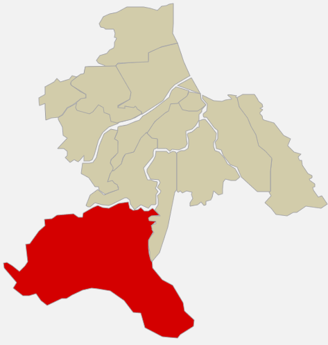 There was Nango village until 2005. Now it is part of Hachinohe city.